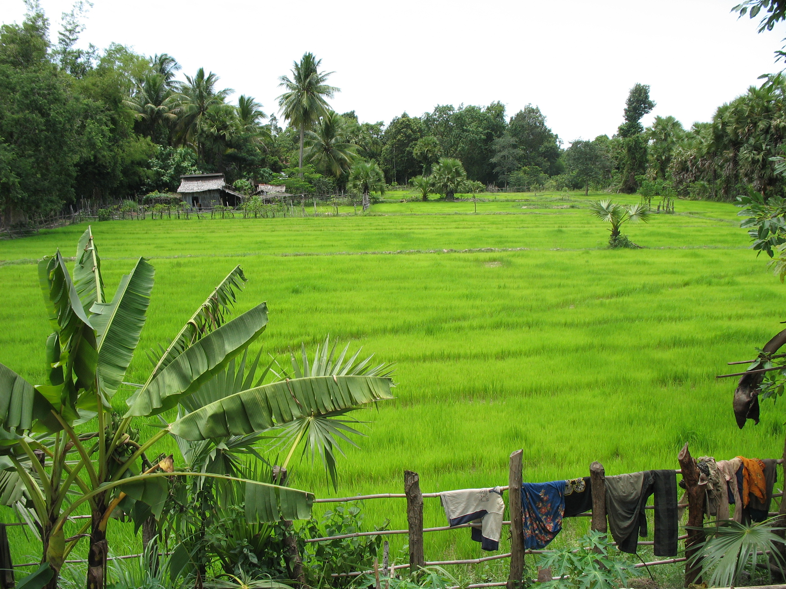 Pursat, Cambodia